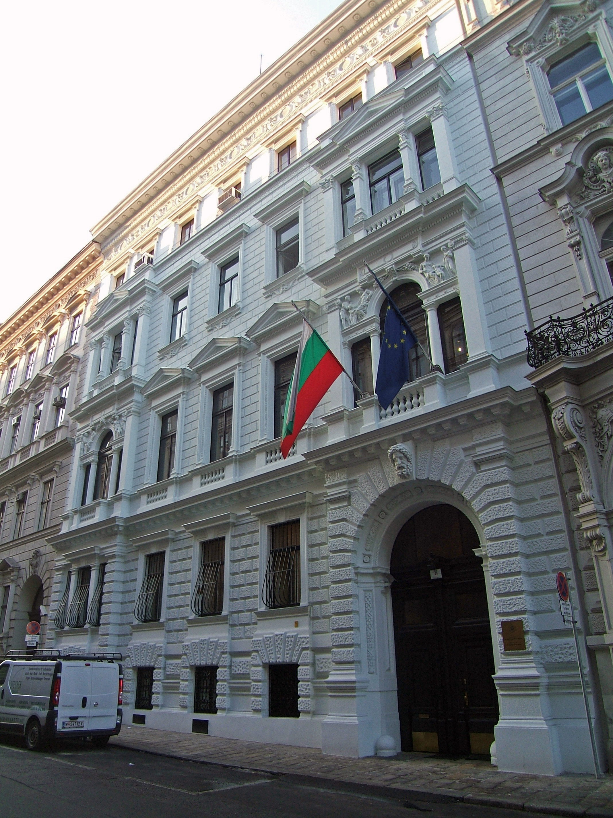 Palais Wasserburg in Vienna 4th district Schwindgasse 8, Embassy of Bulgaria